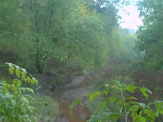 Big Harts Creek is located in southern Lincoln County, WV.